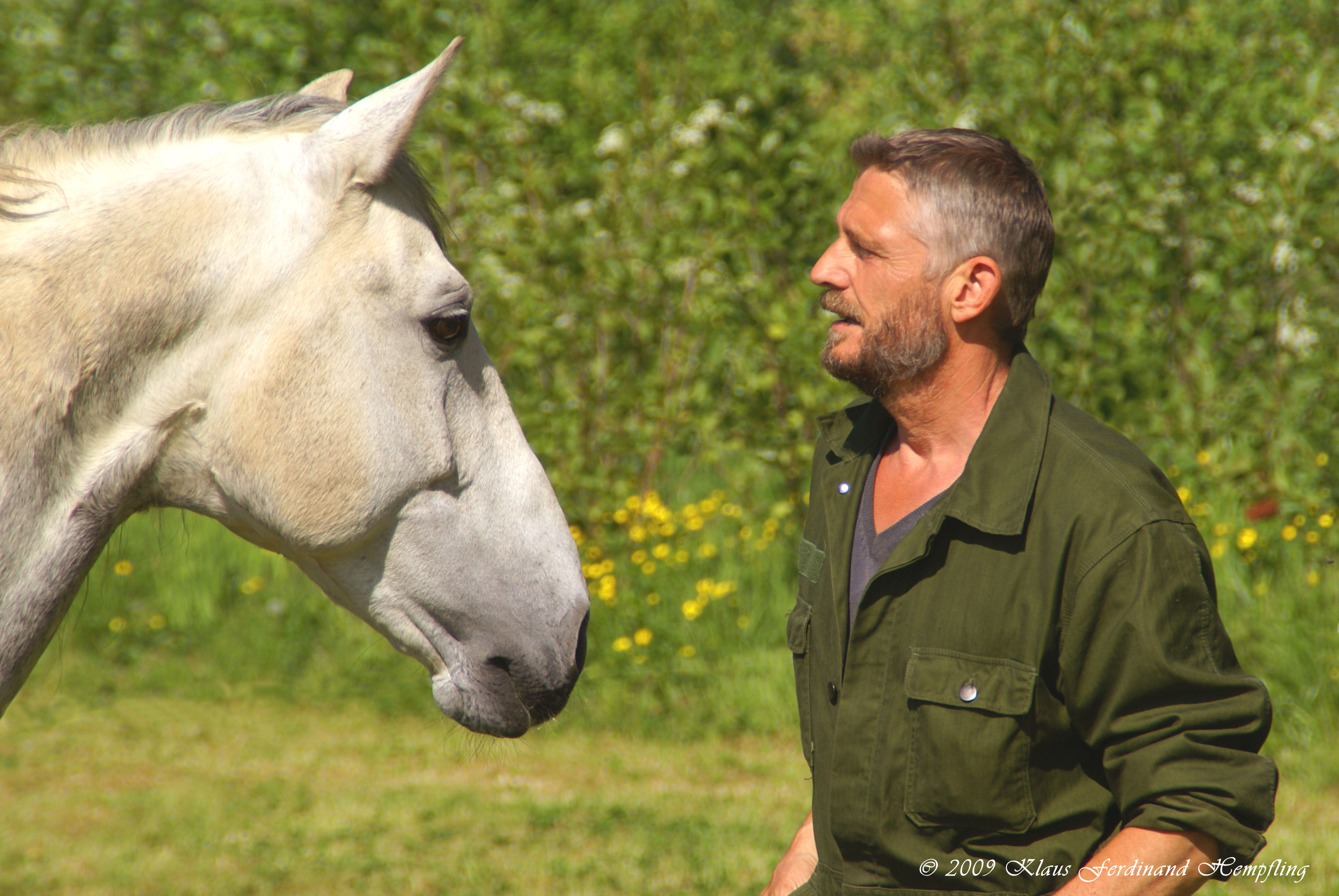 Klaus Ferdinand Hempfling with Queijo on his School Farm in Denmark/Lyø